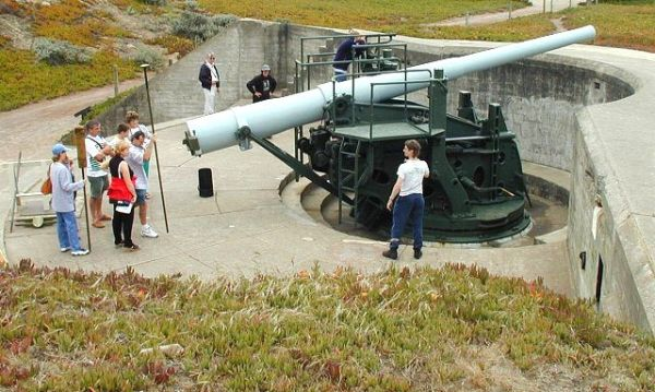 Six-inch Rifled Gun Number 9, Battery Chamberlin, on the grounds of the Presidio of San Francisco, California, USA